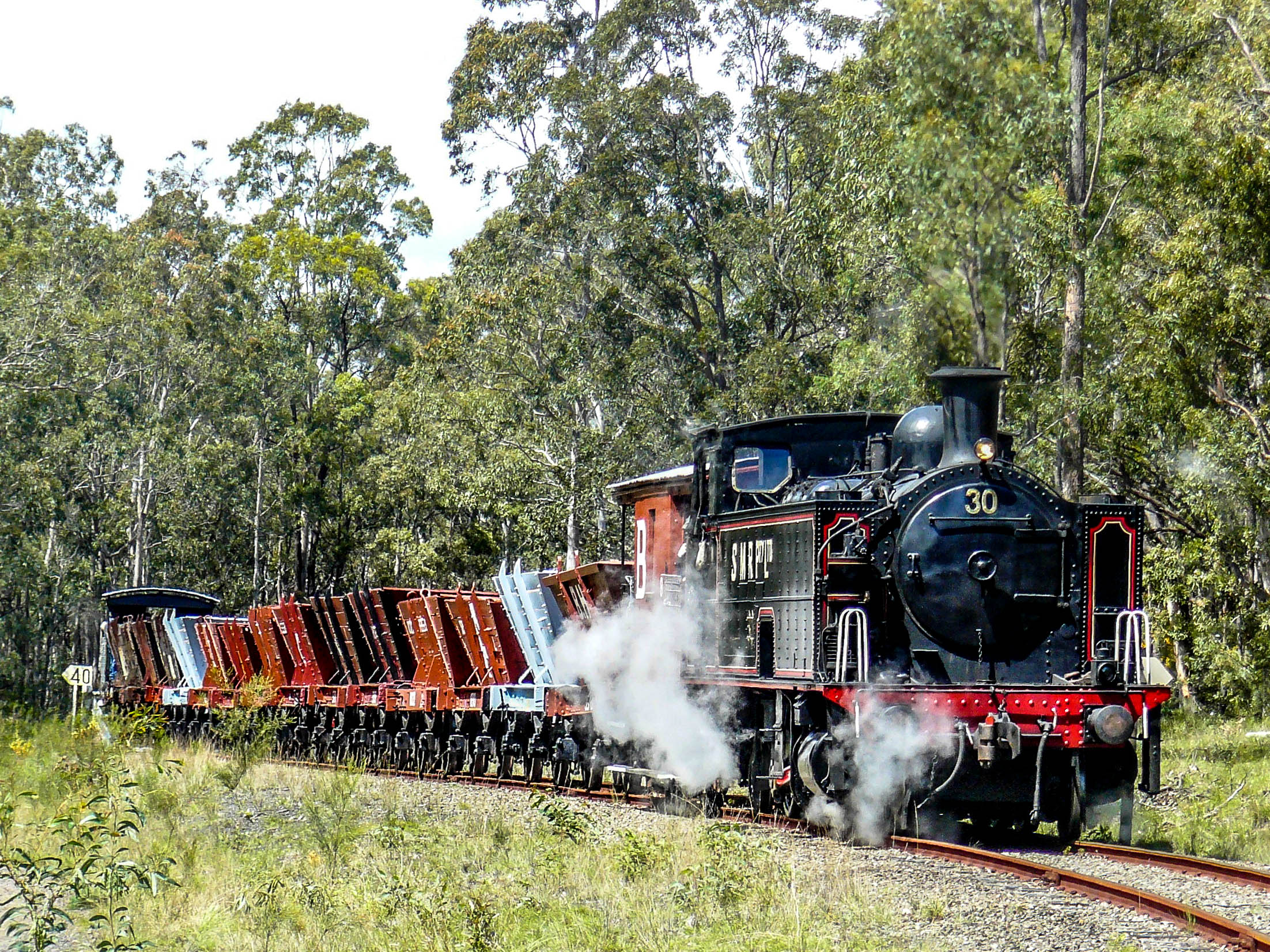 SMR30 on a Photo Stop, 20 years to the day since the cessation of steam on the Richmond Vale Railway.